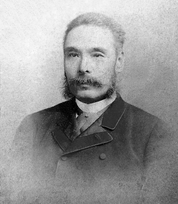 Japanese Prime Minister Kiyotaka Kuroda (黒田清隆, 1840–1900, in office 1888–89)